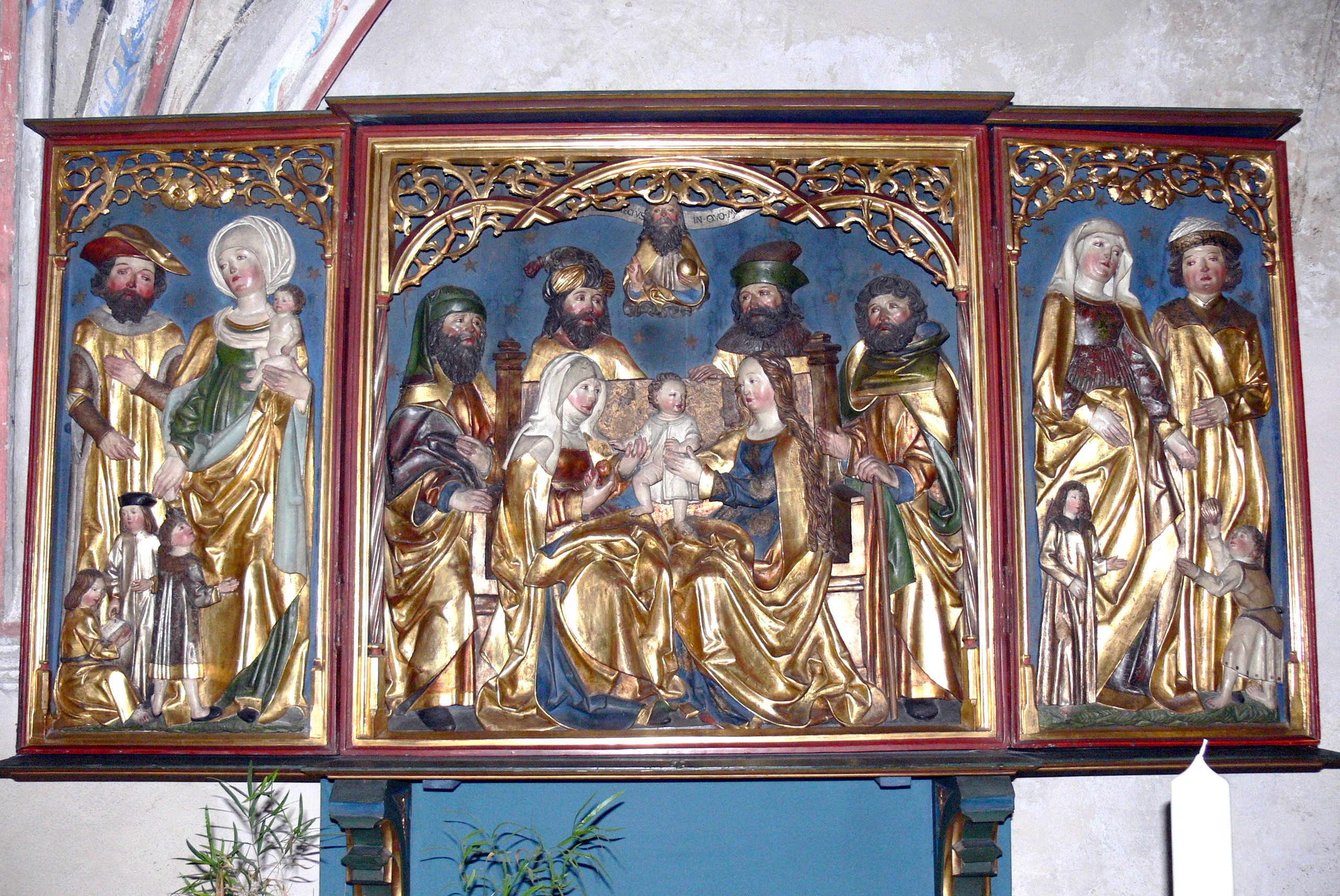 Langenzenn ( Bavaria ). City church - Altar of the Holy Kinship ( 1508 )